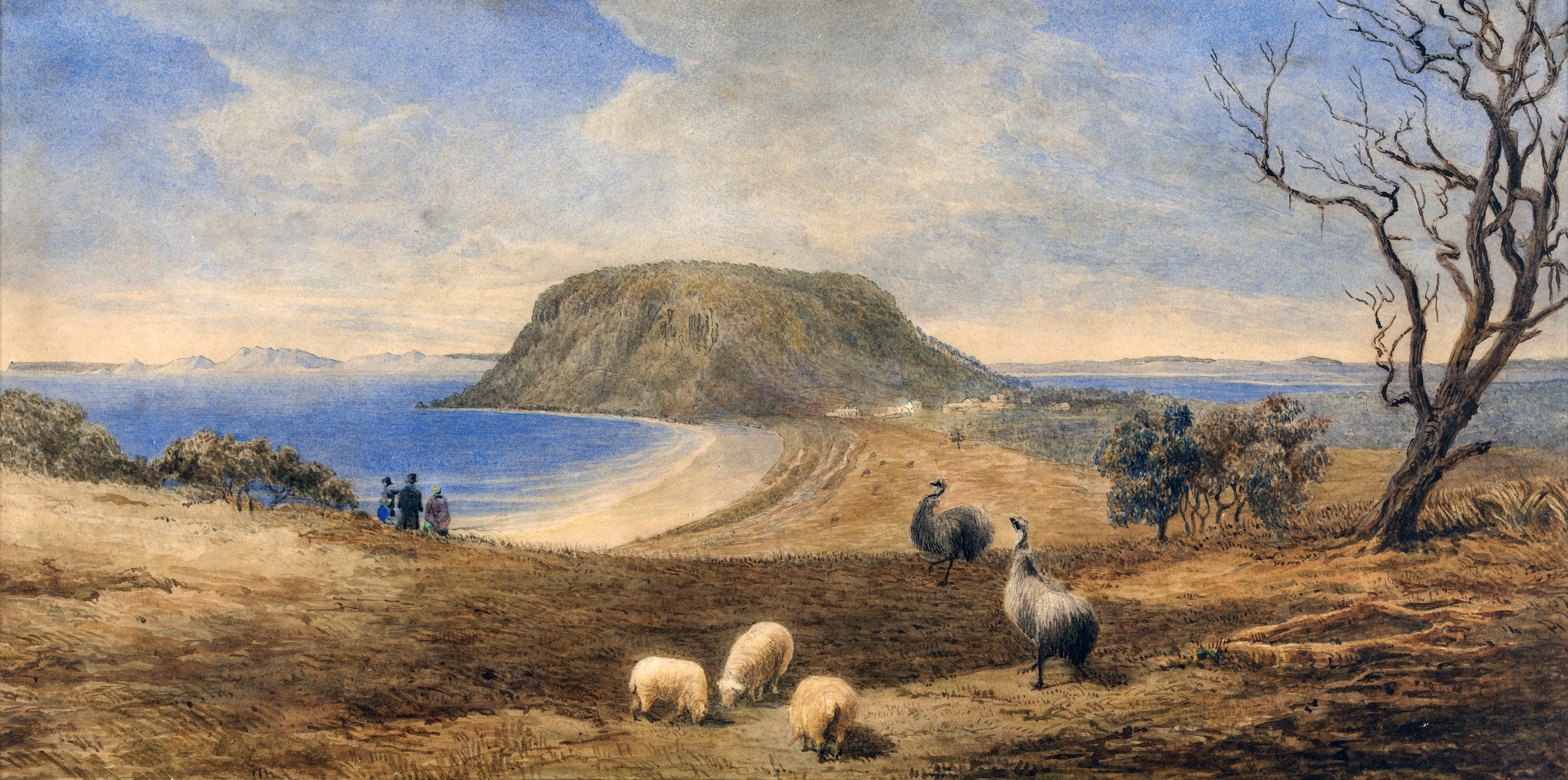 A watercolour by William Porden Kay depicts emus at Stanley during the 1840s.